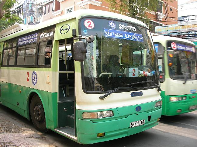 Buses in Ho Chi Minh City, also known as Saigon. As of 2007 most rides cost 3000 dong.